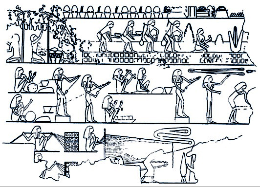 Ancient Egyptian artwork depicting the manufacture of rope by mechanical means.